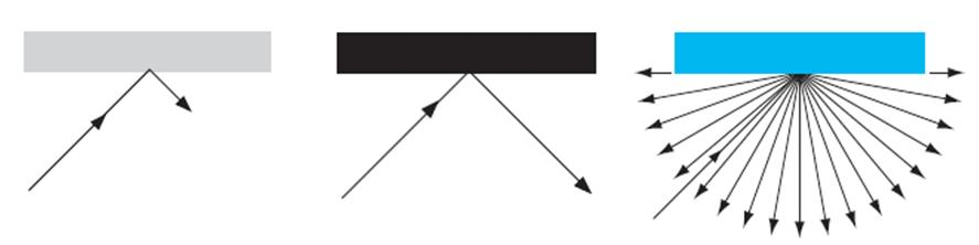 Reflection of sound waves by different materials.